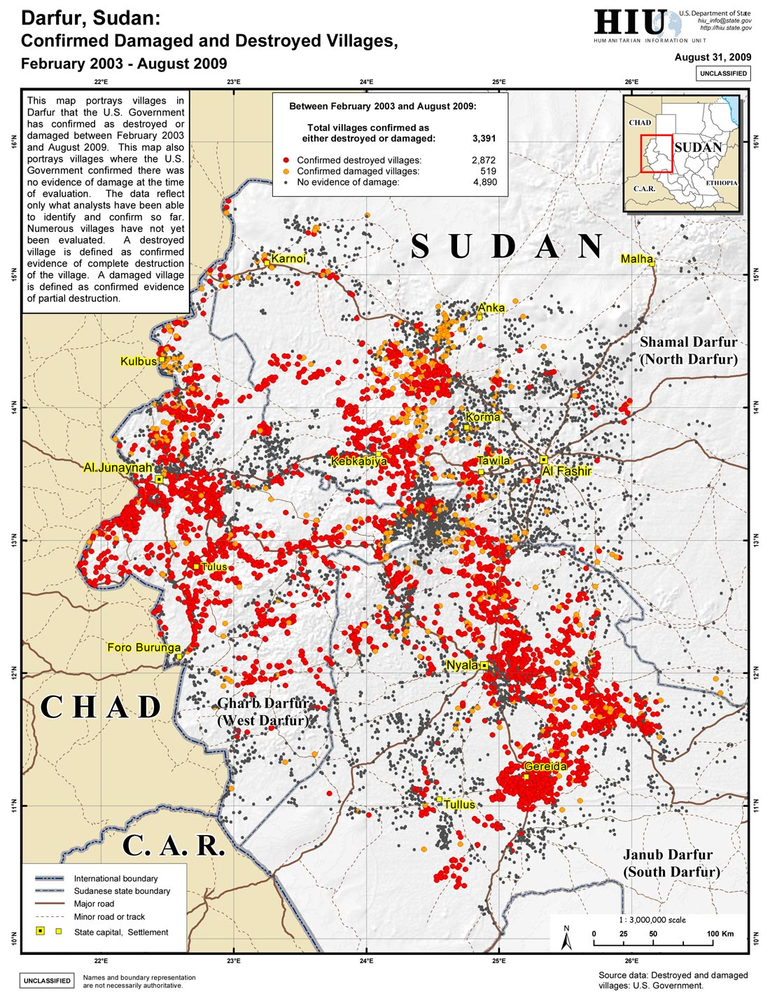 This map portrays villages in Darfur that the U.S. Government has confirmed as destroyed or damaged between February 2003 and August 2009. This map also portrays villages where the U.S. Government confirmed there was no evidence of damage at the time of evaluation. The data reflect only what analysts have been able to identify and confirm so far. Numerous villages have not yet been evaluated. A destroyed village is defined as confirmed evidence of complete destruction of the village. A damaged village is defined as confirmed evidence of partial destruction.